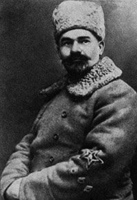 Nikolai Muralov